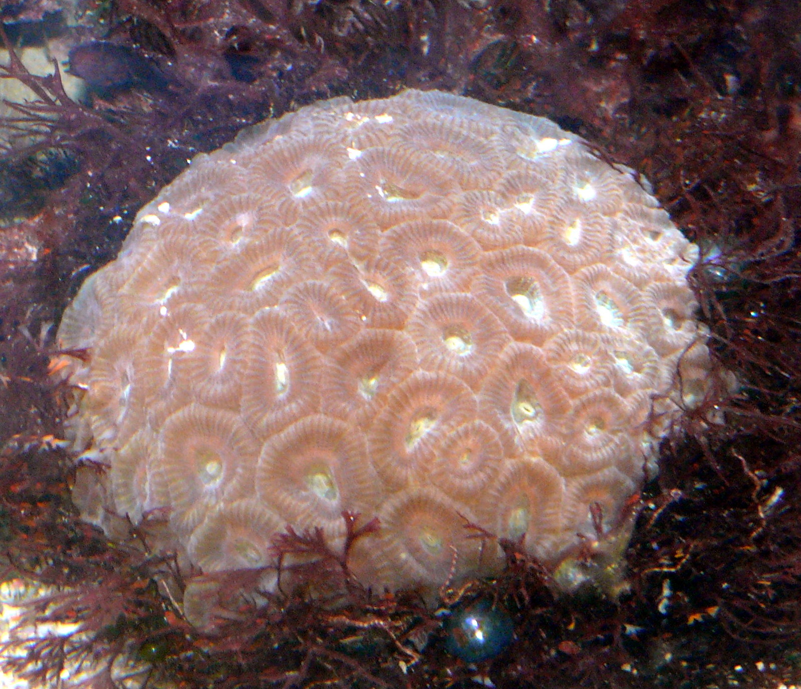 Favia sp., a Stony coral